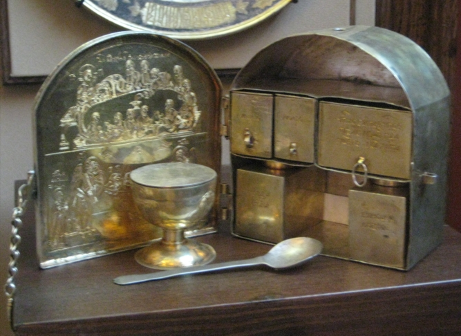 Tabernacle for communion of the sick, 17th century